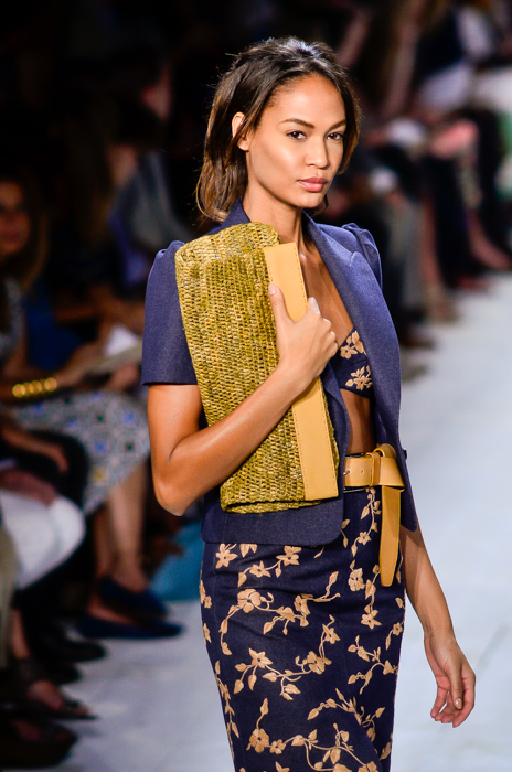 Joan Smalls walks the runway at the Michael Kors Spring/Summer 2014 show at New York Fashion Week, September 2013.